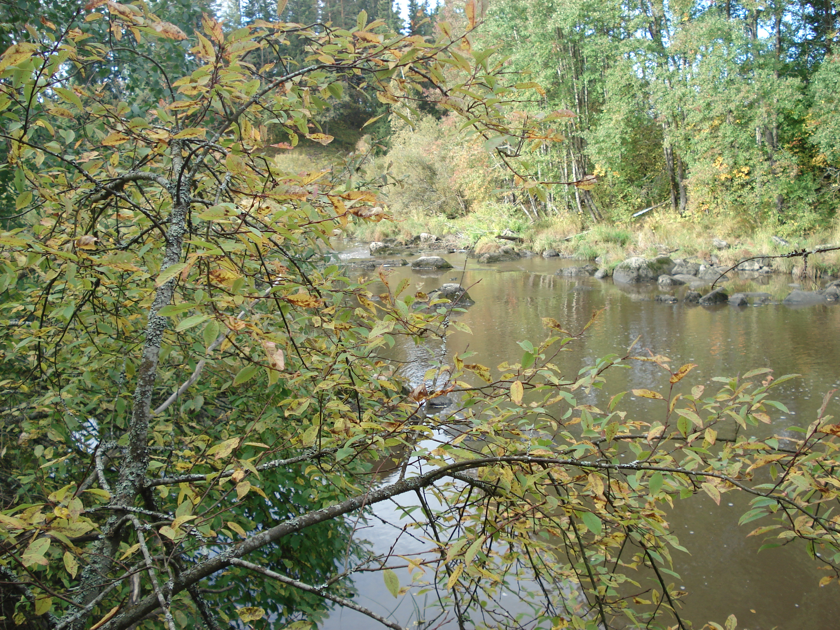 Nautelankoski is one of the most magnificent rapids of the Aura River. In a distance of half a kilometre, the drop is 17 metres. Is located Lieto, by the Aura River about 16 km from Turku, Finland.